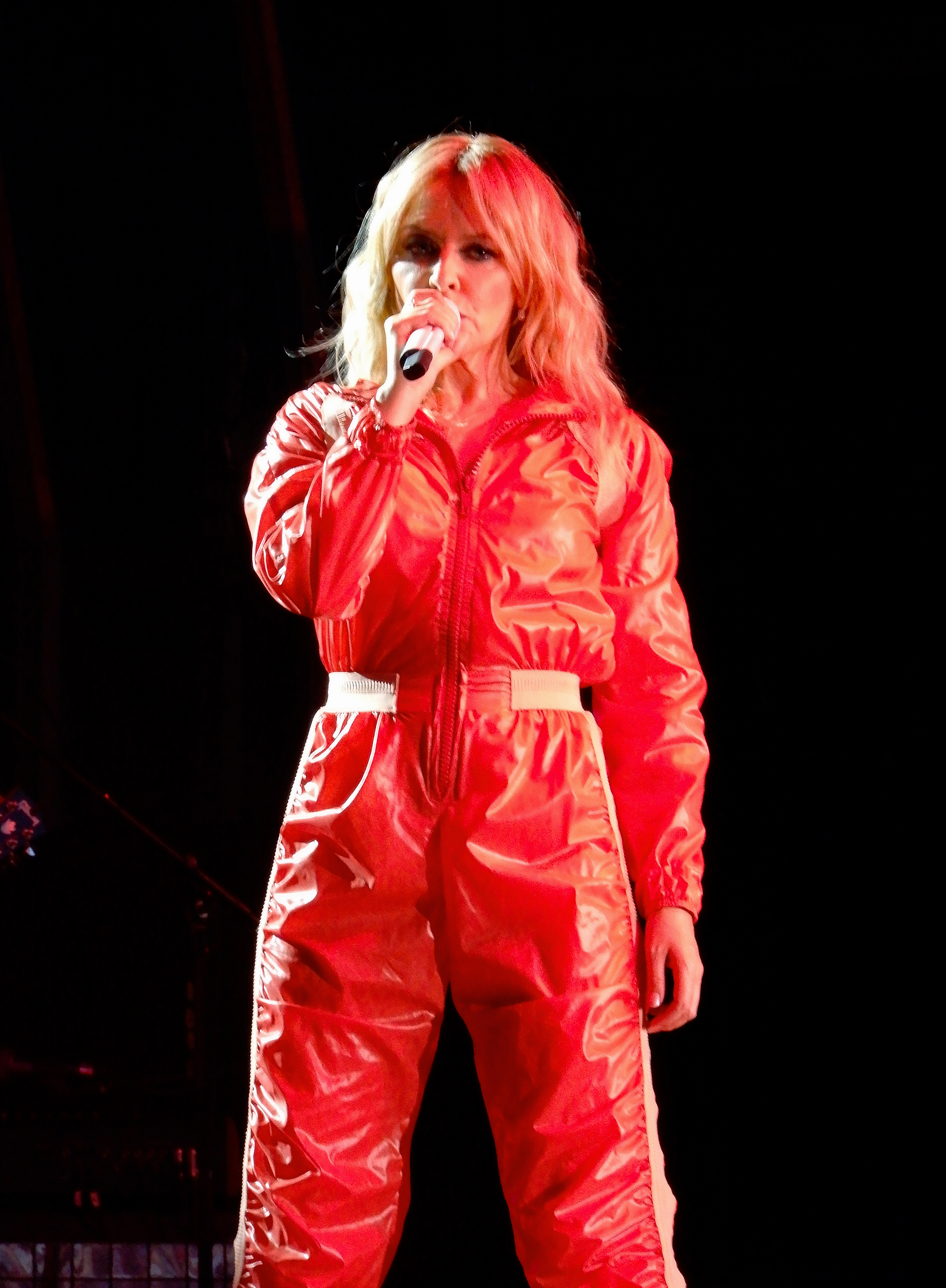 Kylie Minogue Summer tour 2019